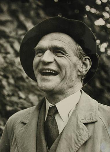 Picture of the author Olle Hedberg